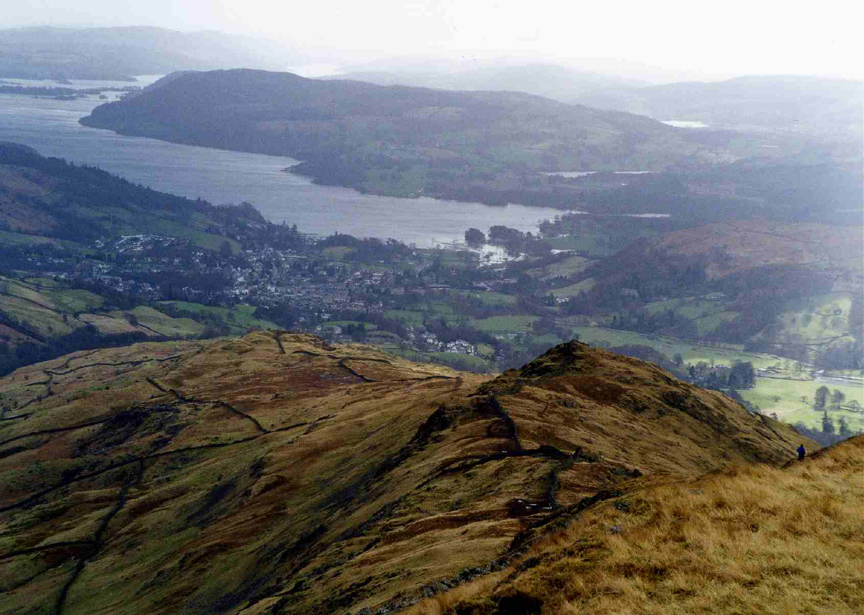 Looking over Low Pike to Ambleside and Windermere from High Pike summit. Personal photograph taken by Mick Knapton in March 1994